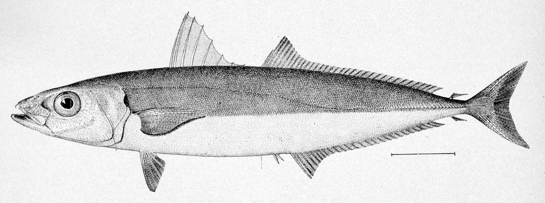 Plate 102. The Round Robin or Cigar-Fish. Decapterus punctatus (Ag. ), Gill.